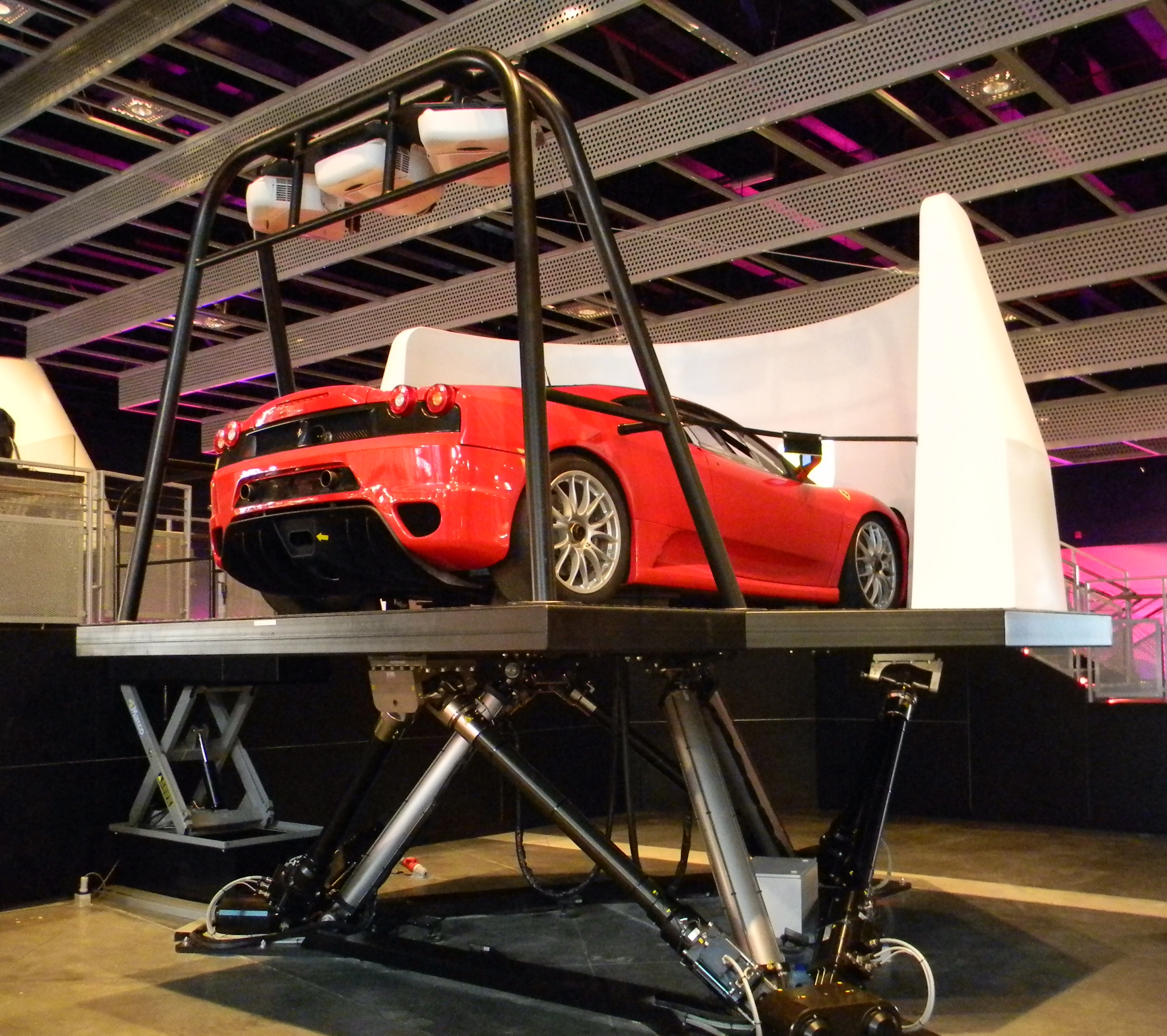 Scuderia Challenge ride